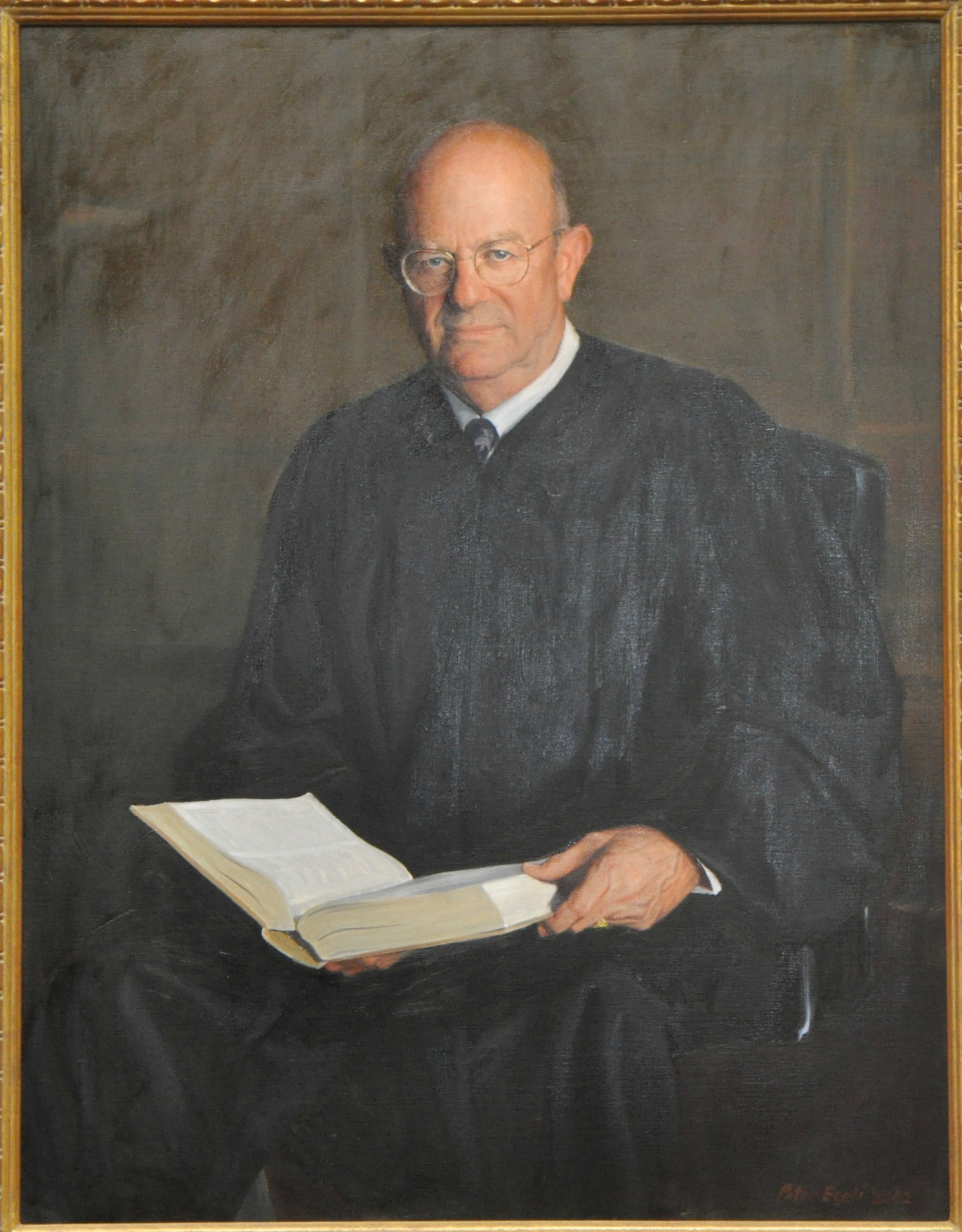 Laurence Hirsch Silberman United States Circuit Judge